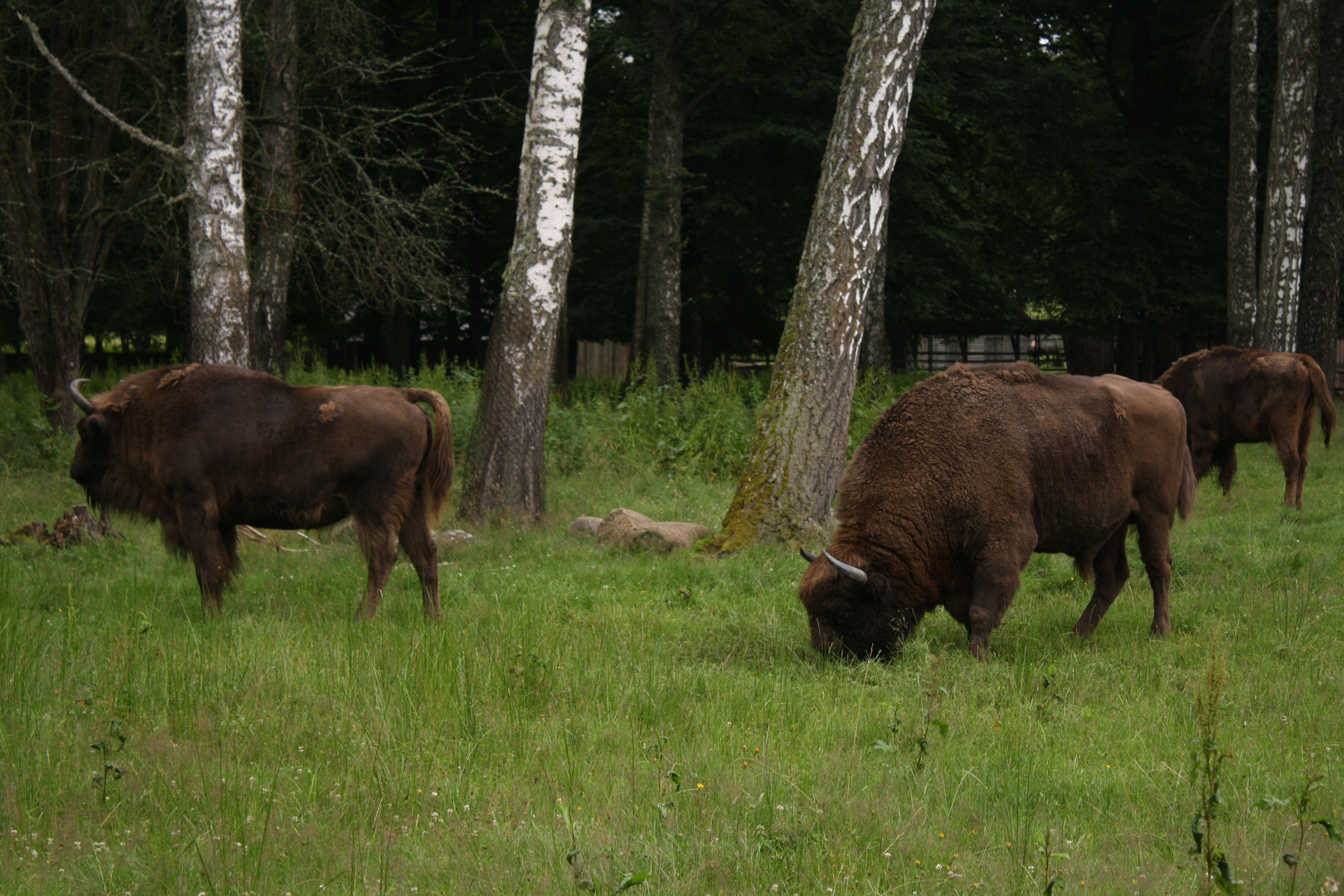 Białowieski National Park (Podlasie Voivodeship)